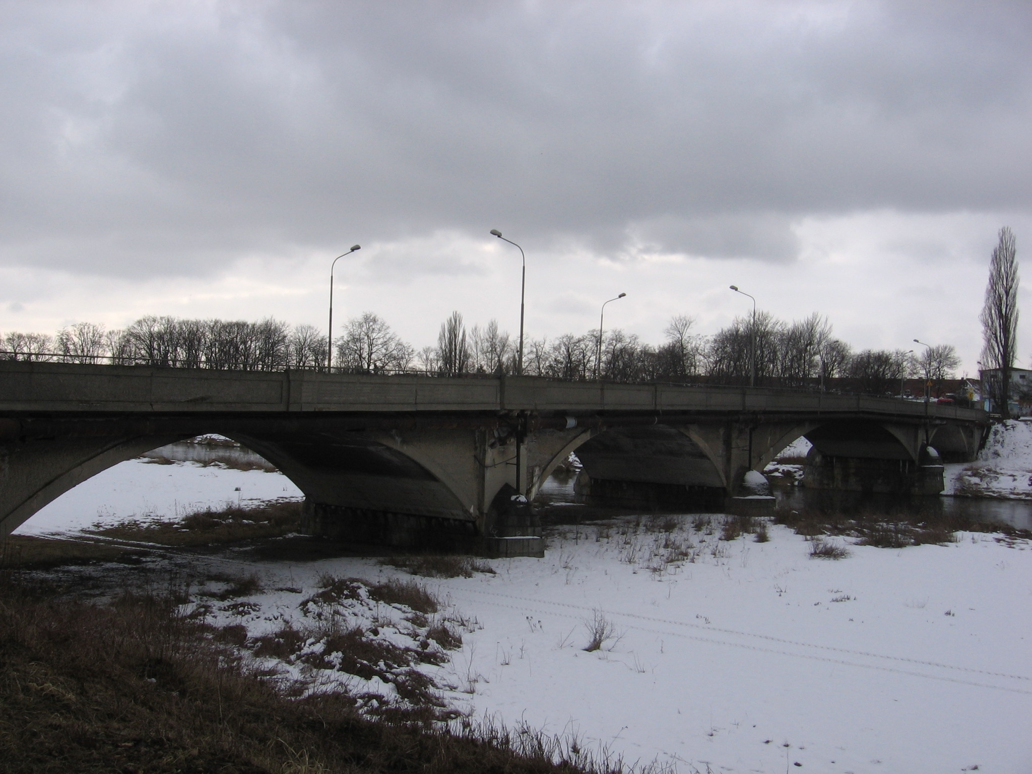 Wrocław, Poland Chrobrego Bridge (or Swojczycki Bridge), south-western part, view from north